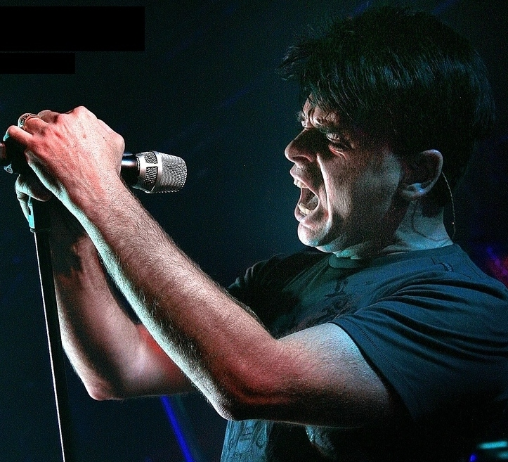 Gary Numan performing in 2007.